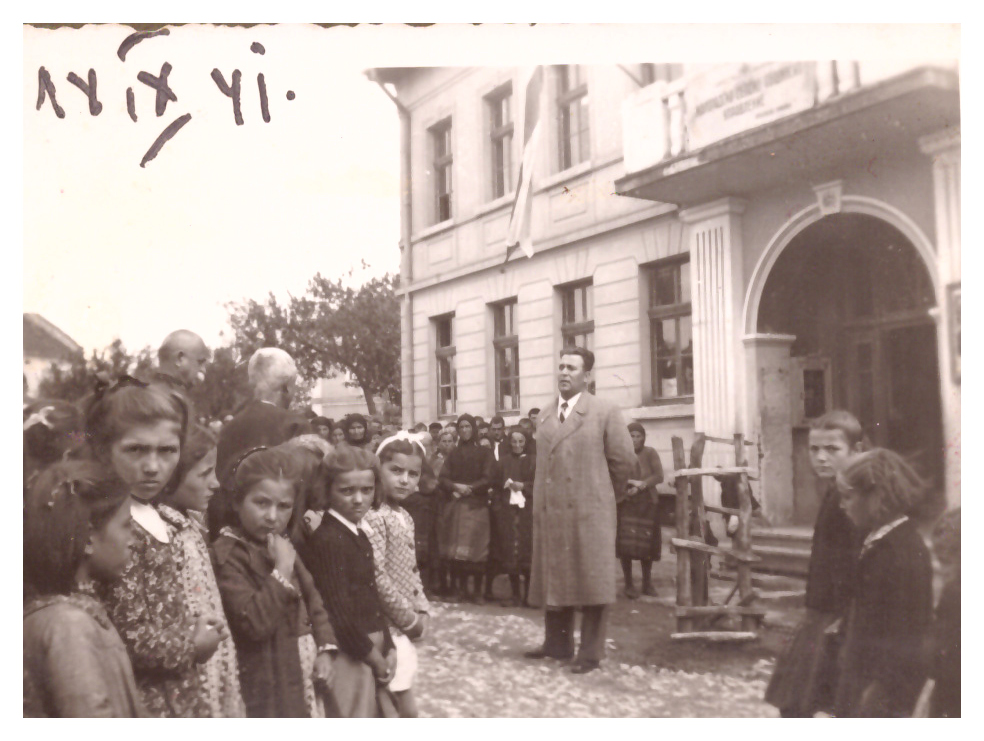 Peter Valtchev Beeloslatinski